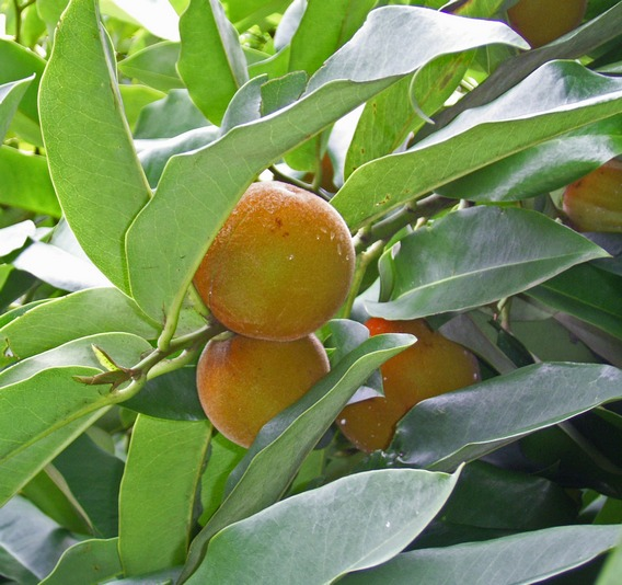 Diospyros blancoi, fruits and leaves. Darmaga, Bogor, West Java, Indonesia